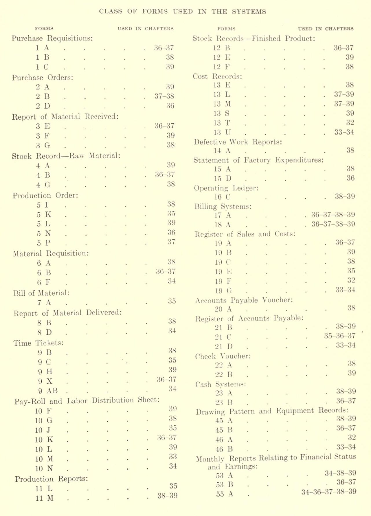 Class of forms used in the system, 1909